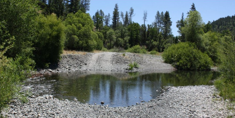 Rice Fork Eel River crossing, Mendocino National Forest, Lake County, California